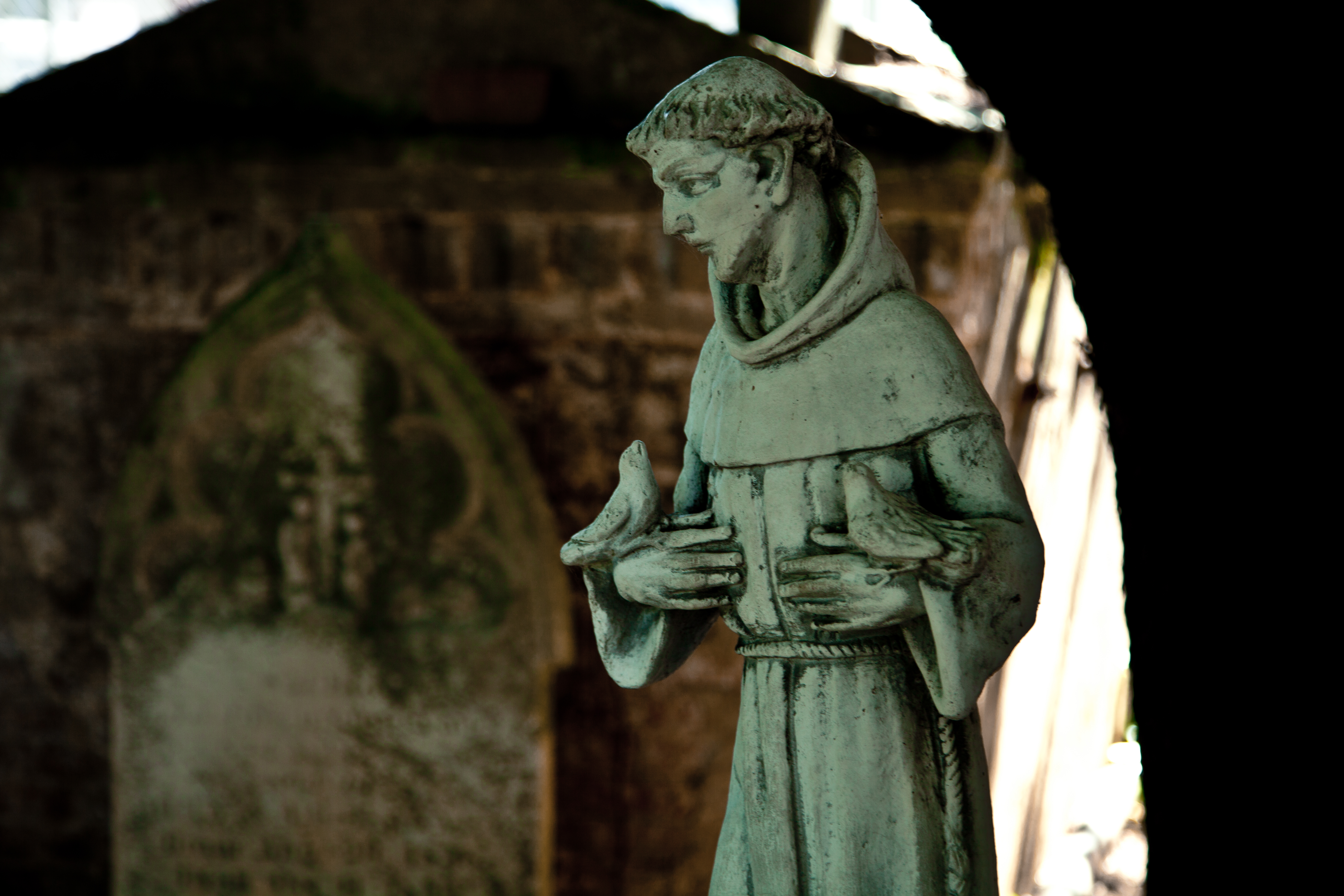 Mission Dolores